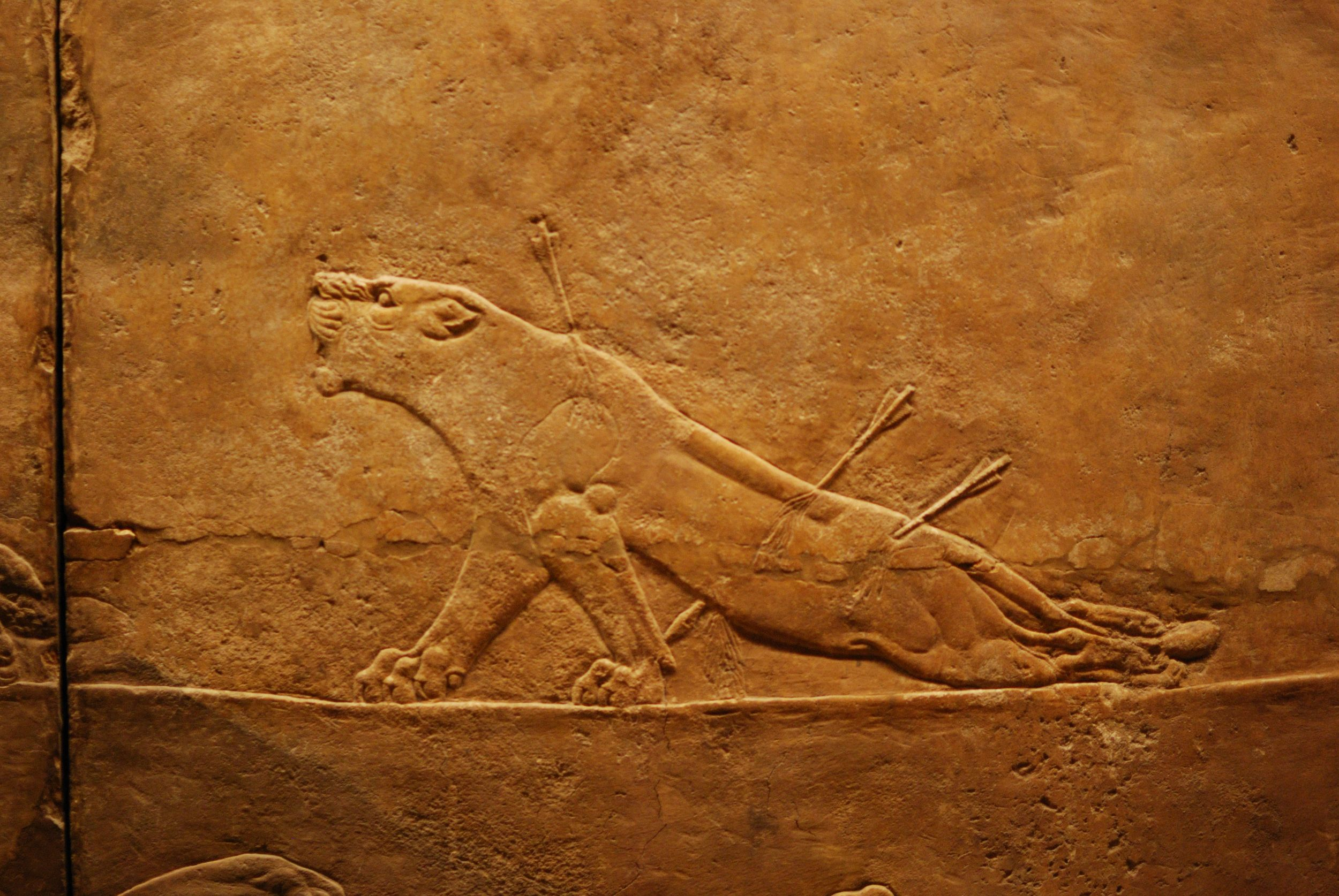 British Museum, Assyrian collections (Room 10, British Museum)